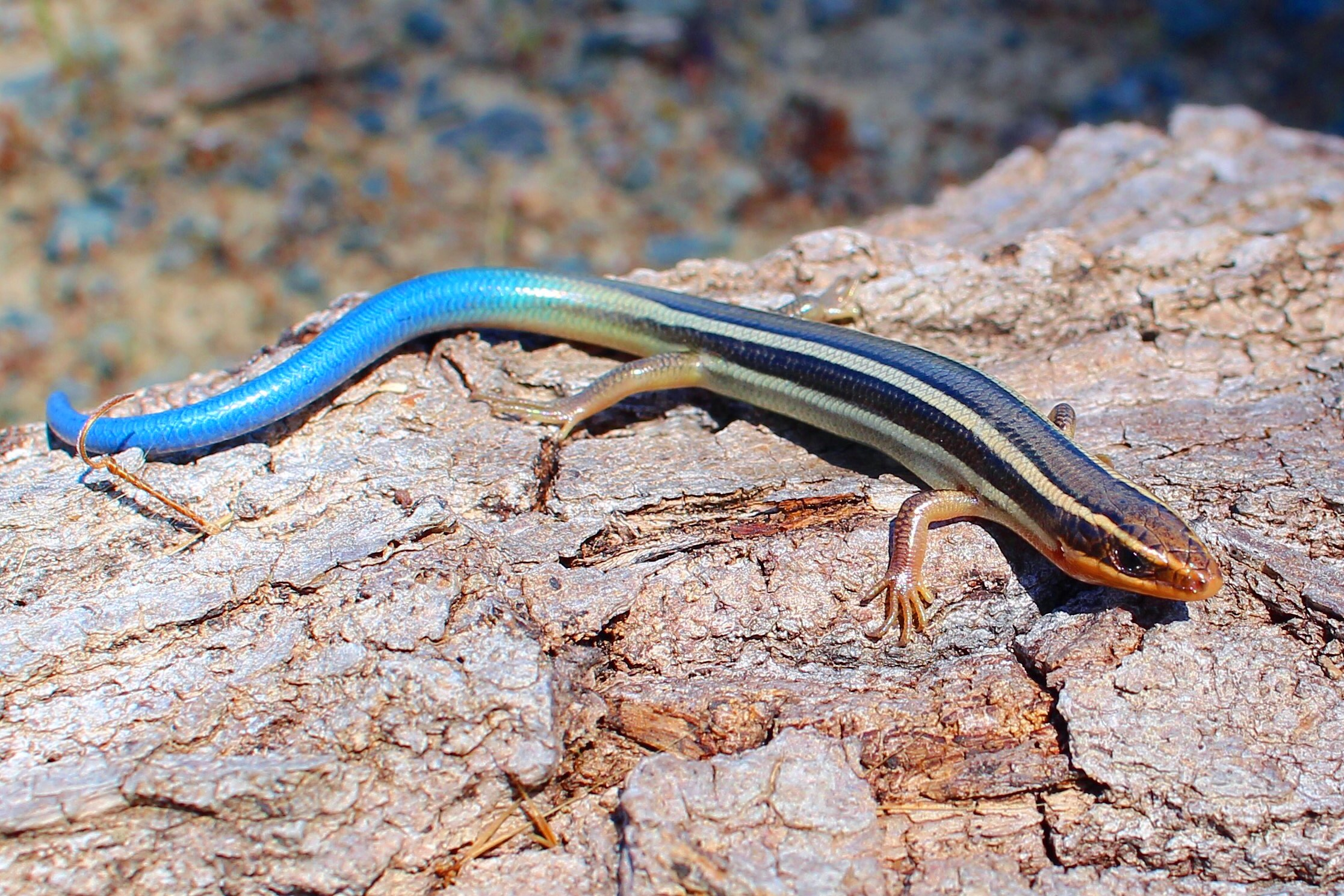 A juvenile Western skink (Plestiodon skiltonianus) from Sacramento County, California, USA